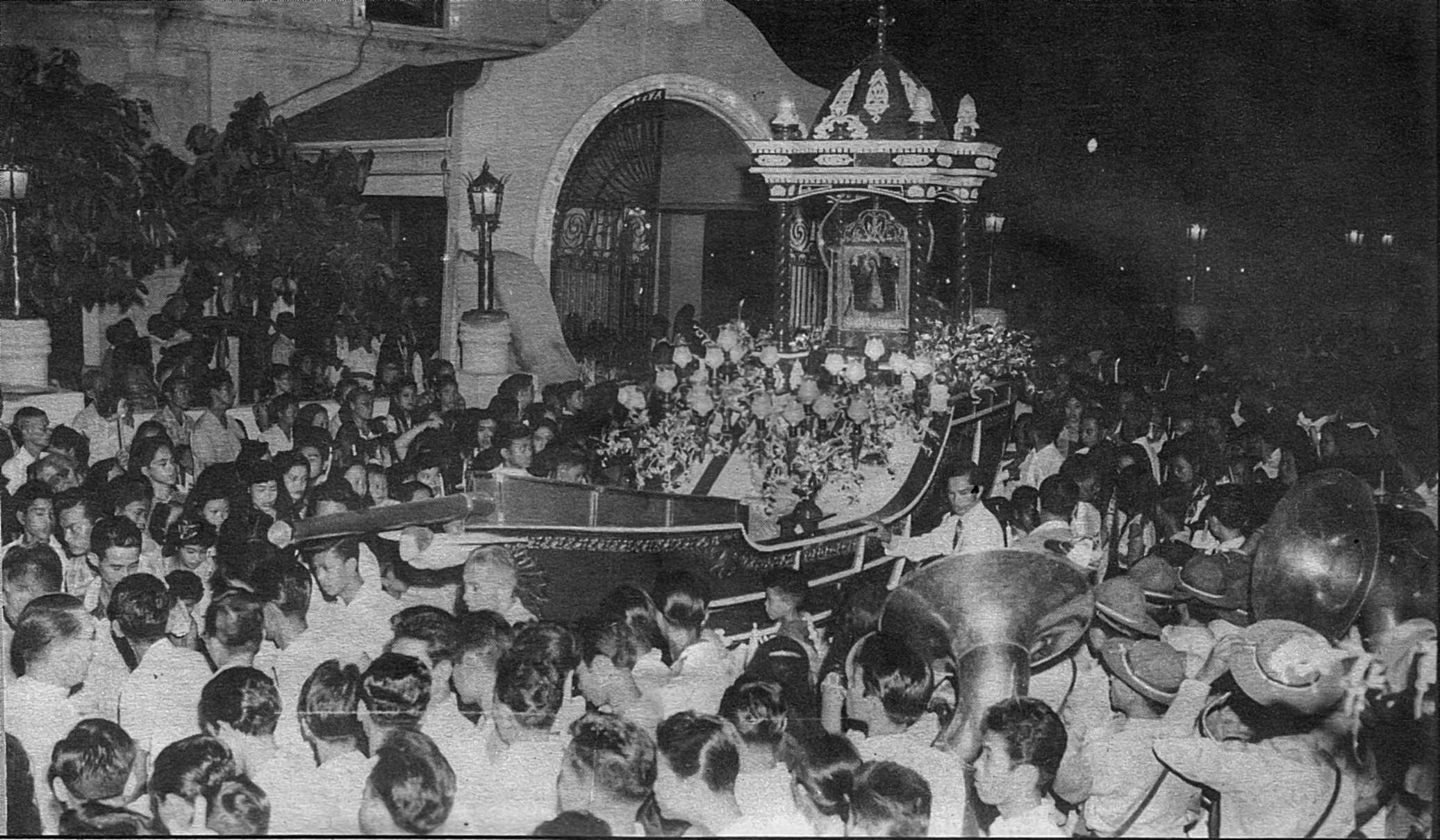 Soledad fiesta 1955 (Fiesta 1992 program)